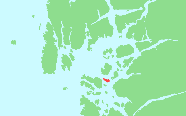 Locator map of Talgje, Rogaland, Norway